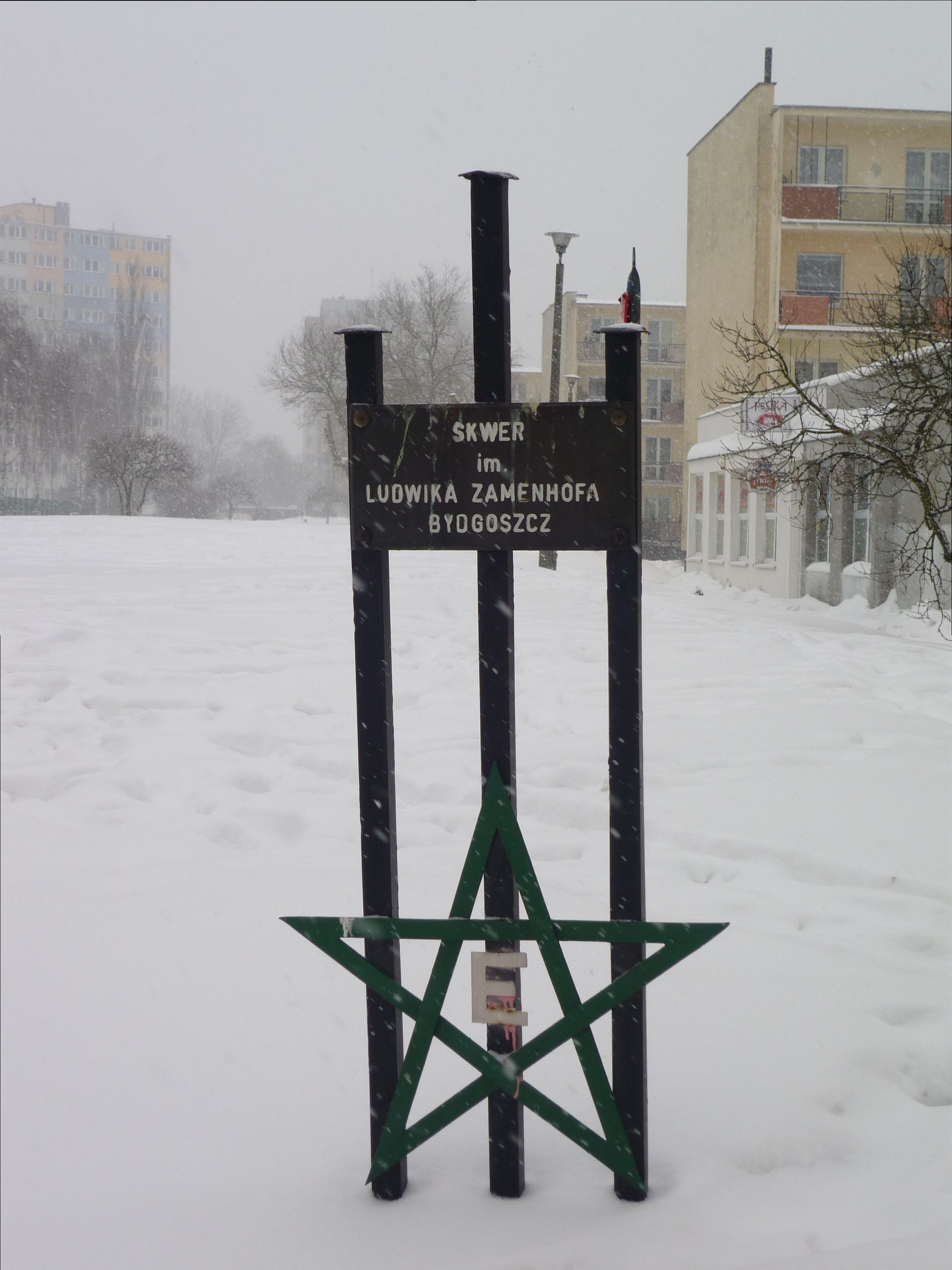 So called Zamenhof-Esperanto Object (ZEO) located in Bydgoszcz (Poland), square of Zamenhof.